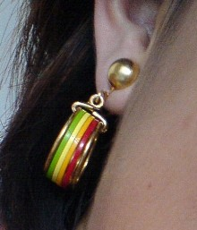 clip earring